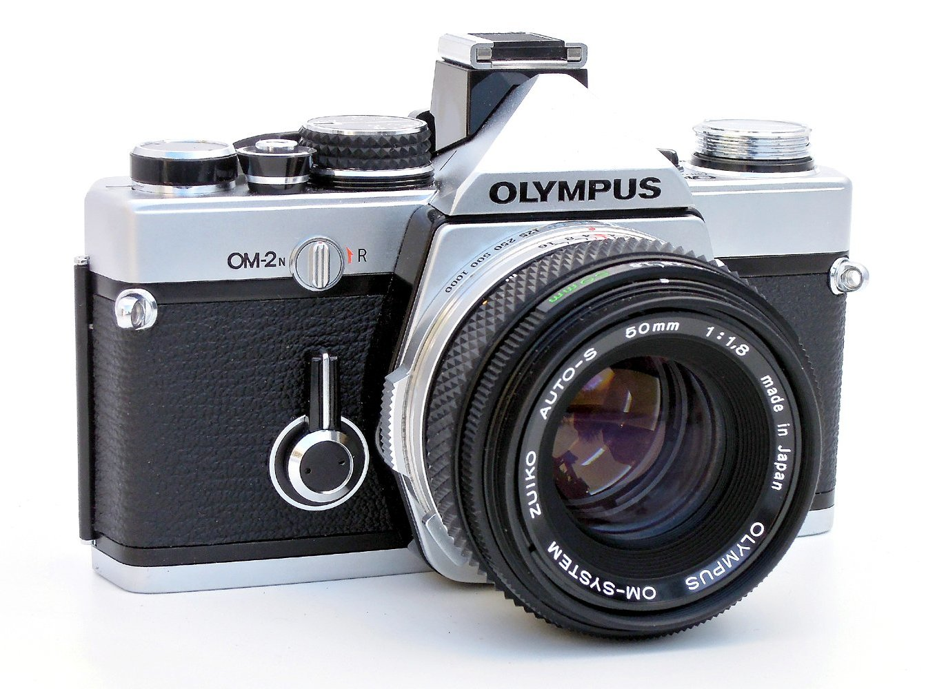 Yet another charity shop find and absolutely mint condition. I am reliably informed that they are worth 'peanuts' now - what a sad situation.